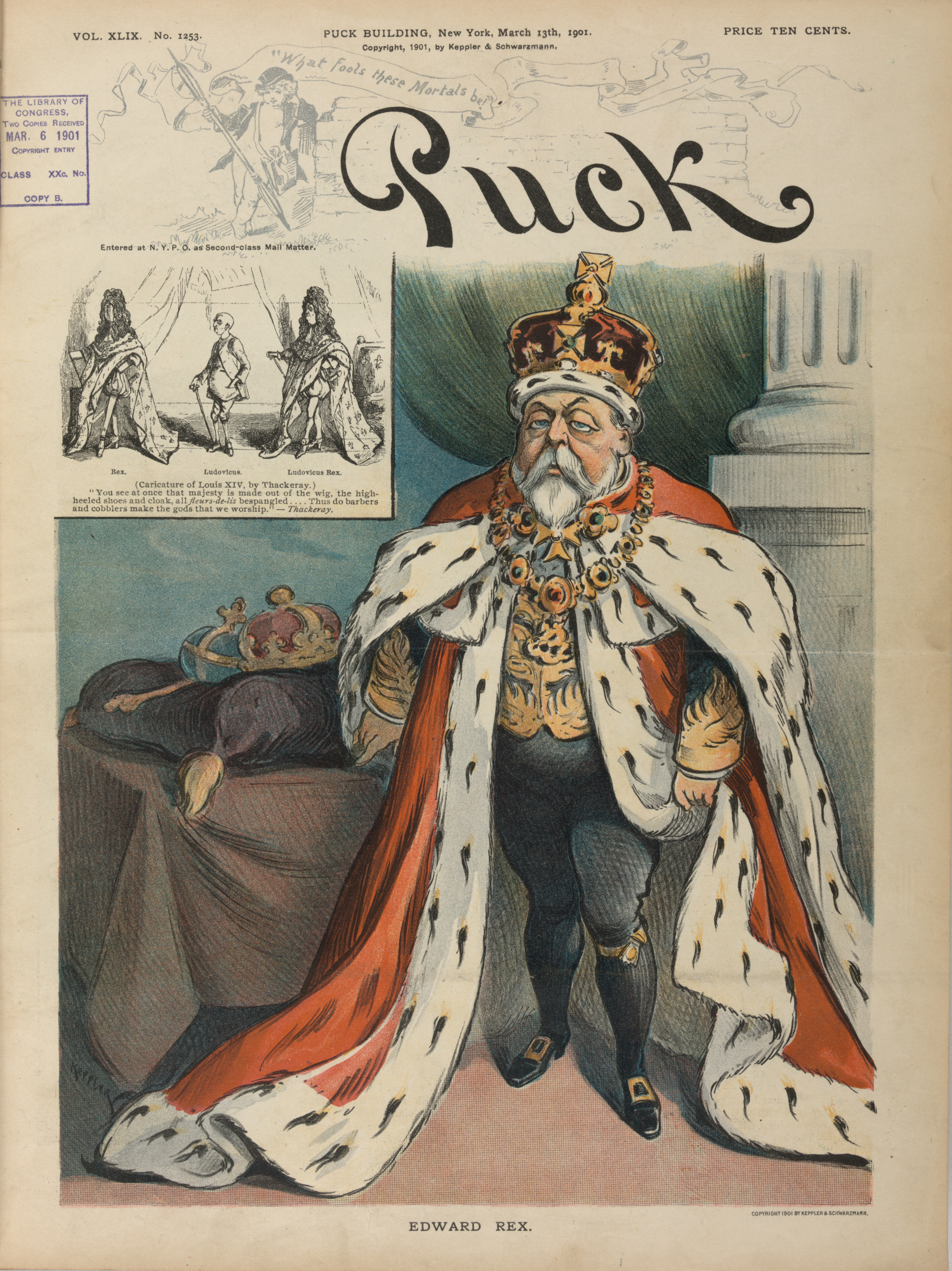 Edward VII, King of Great Britain, with an insert showing "(Caricature of Louis XIV, by Thackeray) 'You see at once that majesty is made out of the wig, the high-heeled shoes and cloak, all fleurs-de-lis bespangled....Thus do barbers and cobblers make the gods that we worship.' --Thackeray."